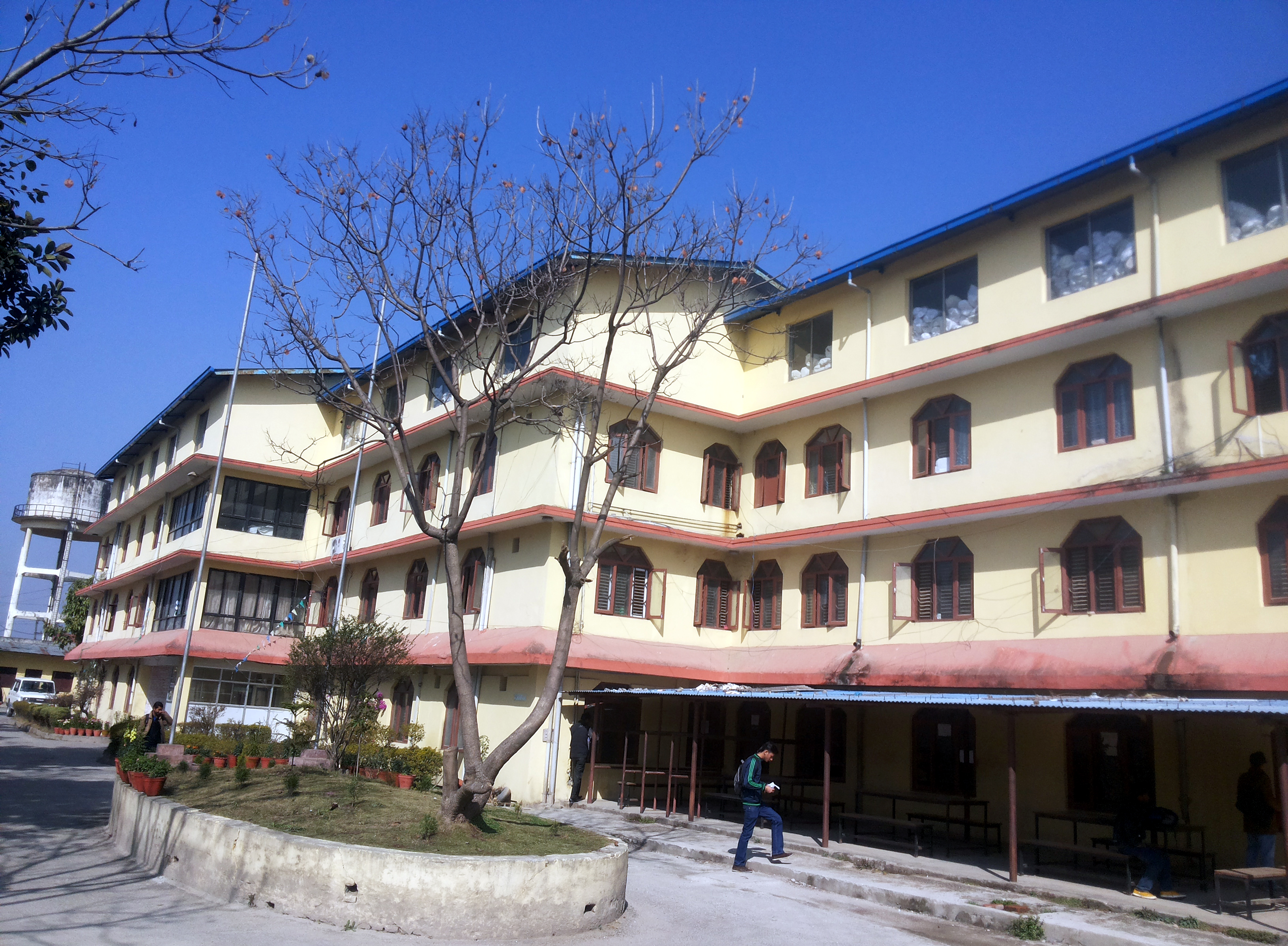 HSEB Examination controlars office in sanothimi bhaktapur